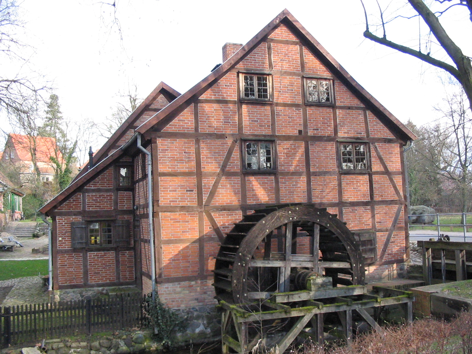 Old stone grinding watermill (today a museum) in Schwerin, Germany